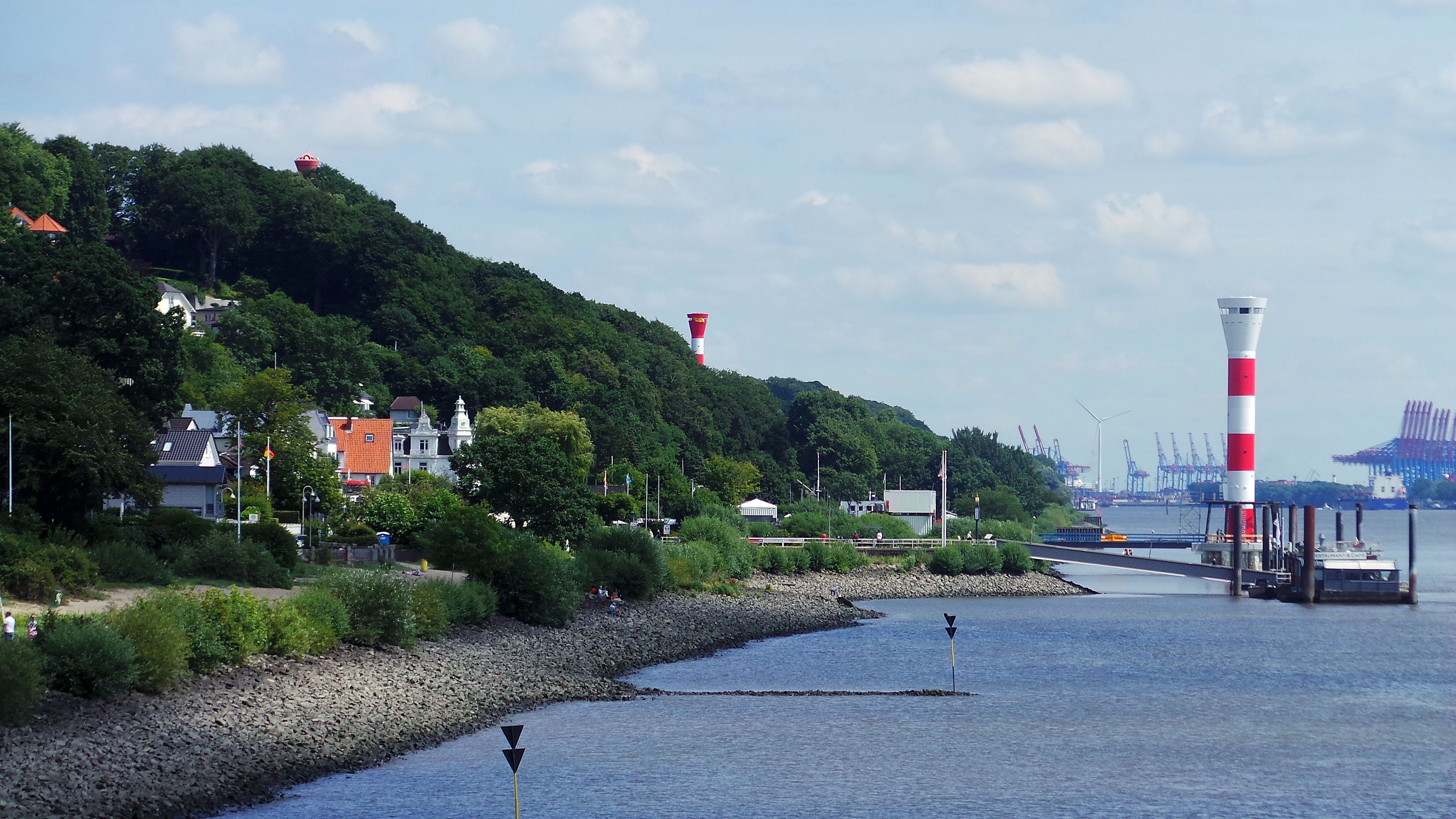 Blankenese Unterfeuer